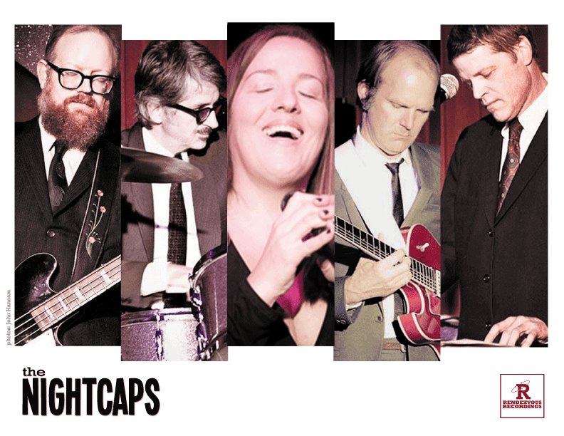 photo collage of the Nightcaps (Seattle lounge band)